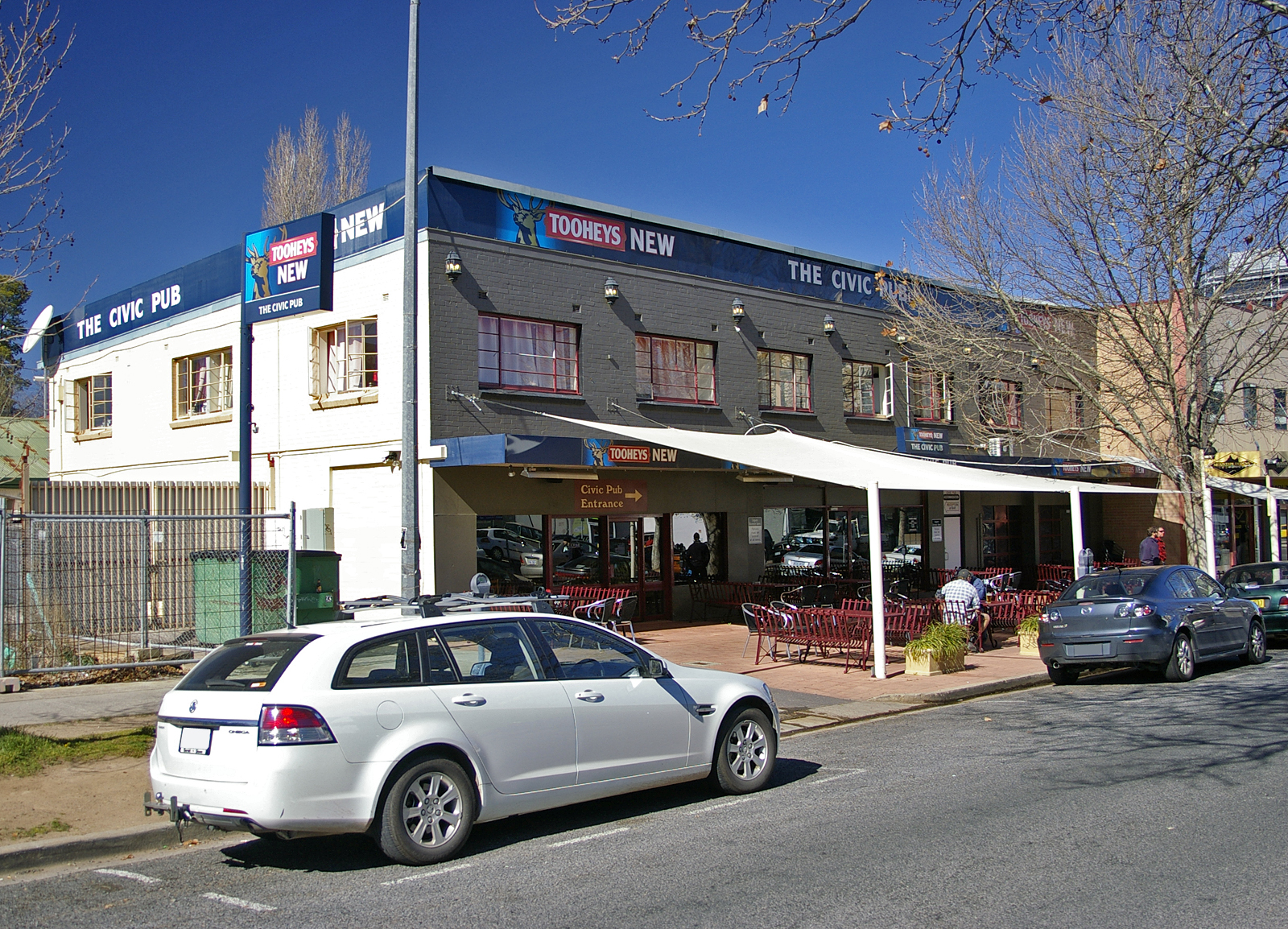 The Civic Pub located in the Canberra suburb of Braddon, Australian Capital Territory